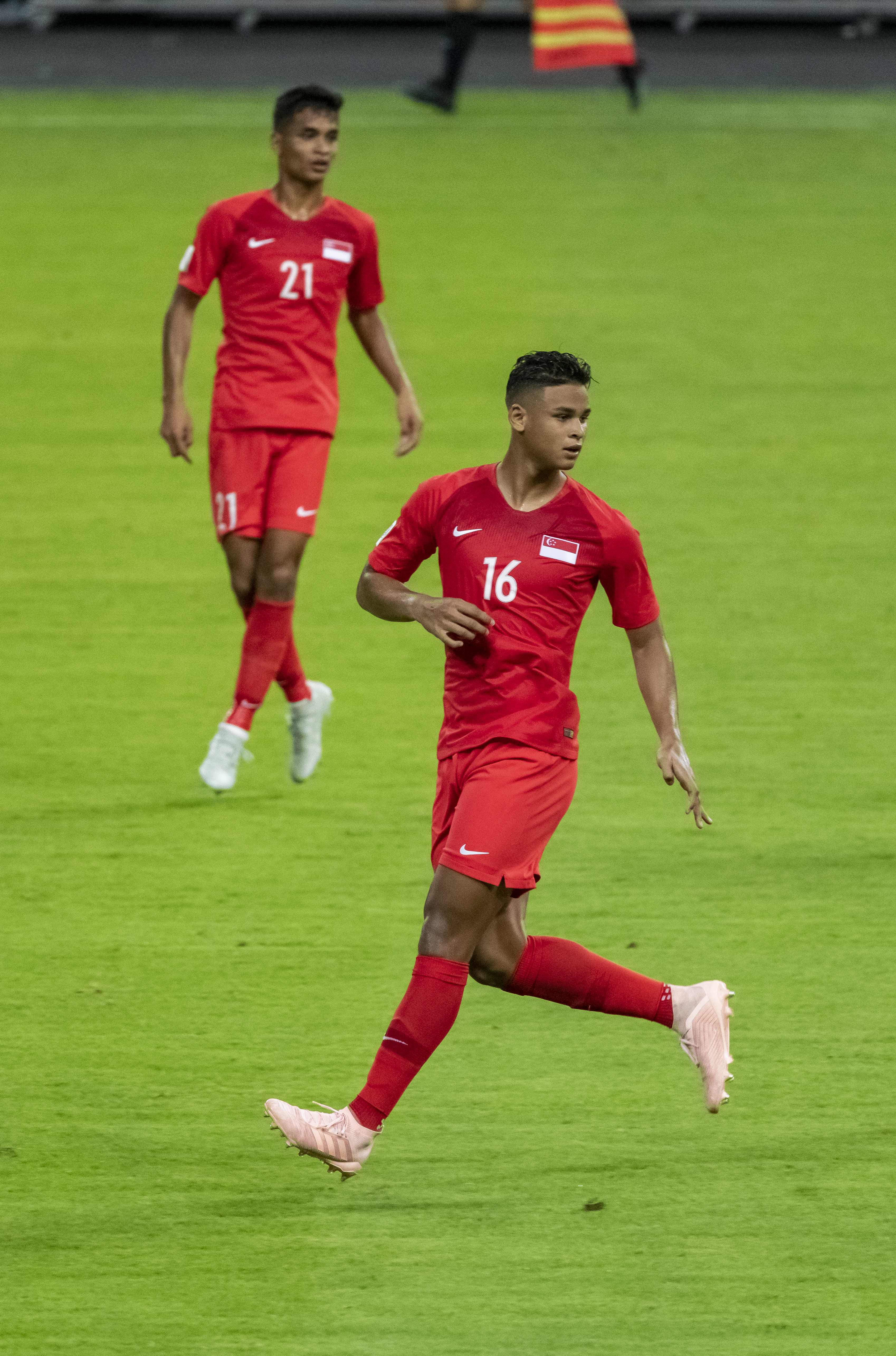 Suzuki Cup v Indonesia